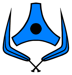 Genii logo (from Stargate Atlantis 1x10 "Storm, part 1").